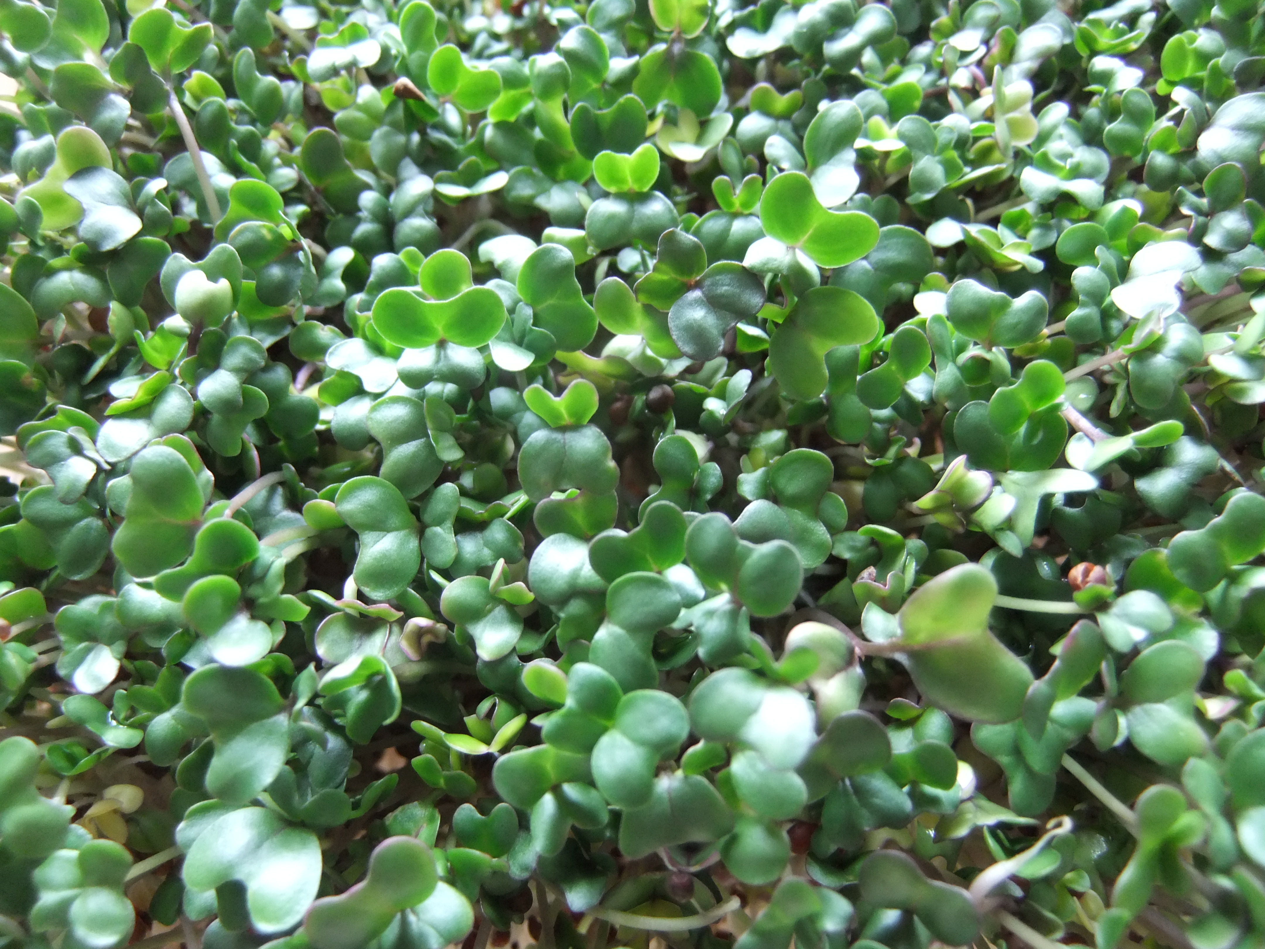 Five day old organic broccoli sprouts